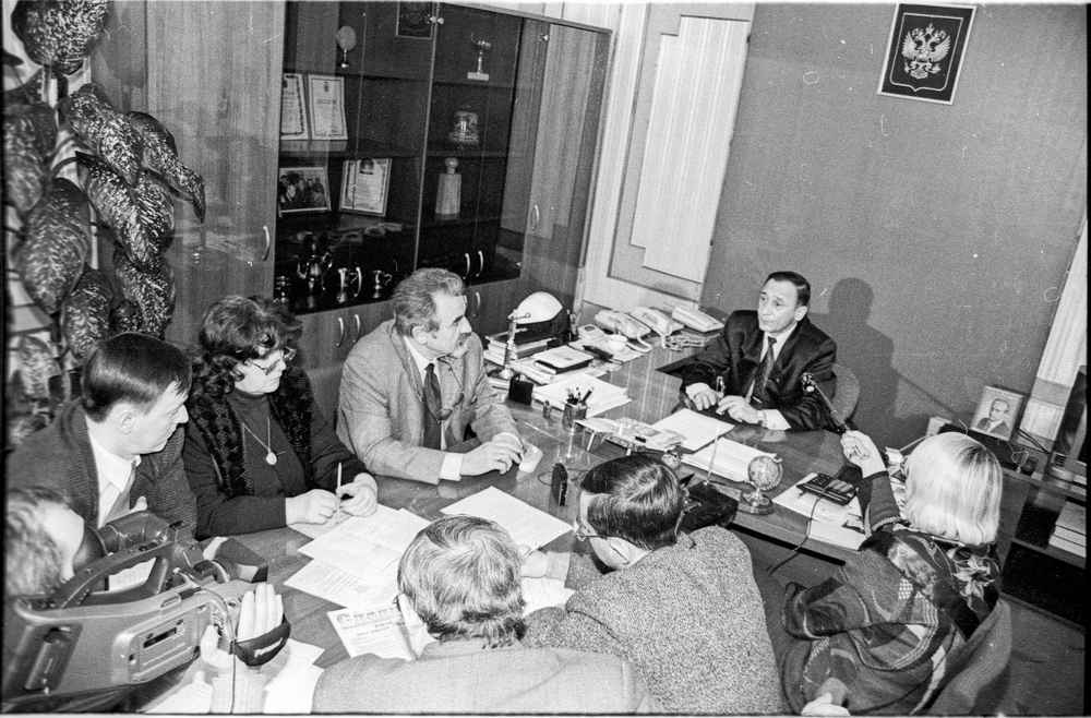 Eugene Alekseevich Melnik — mayor of Pereslavl town.